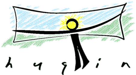 Hugin's logo